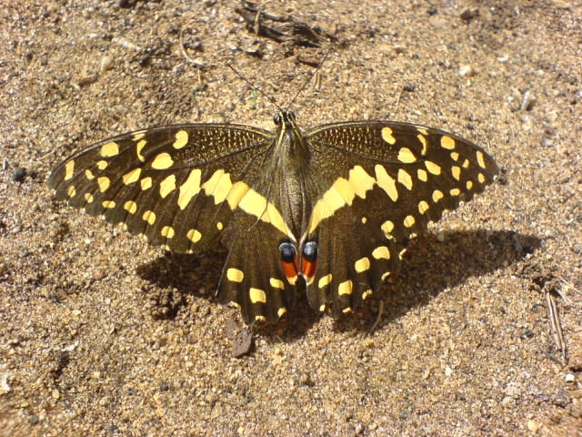 A Tanzanian butterfly with its eye spots visible A Tanzanian butterfly with its eye spots visible